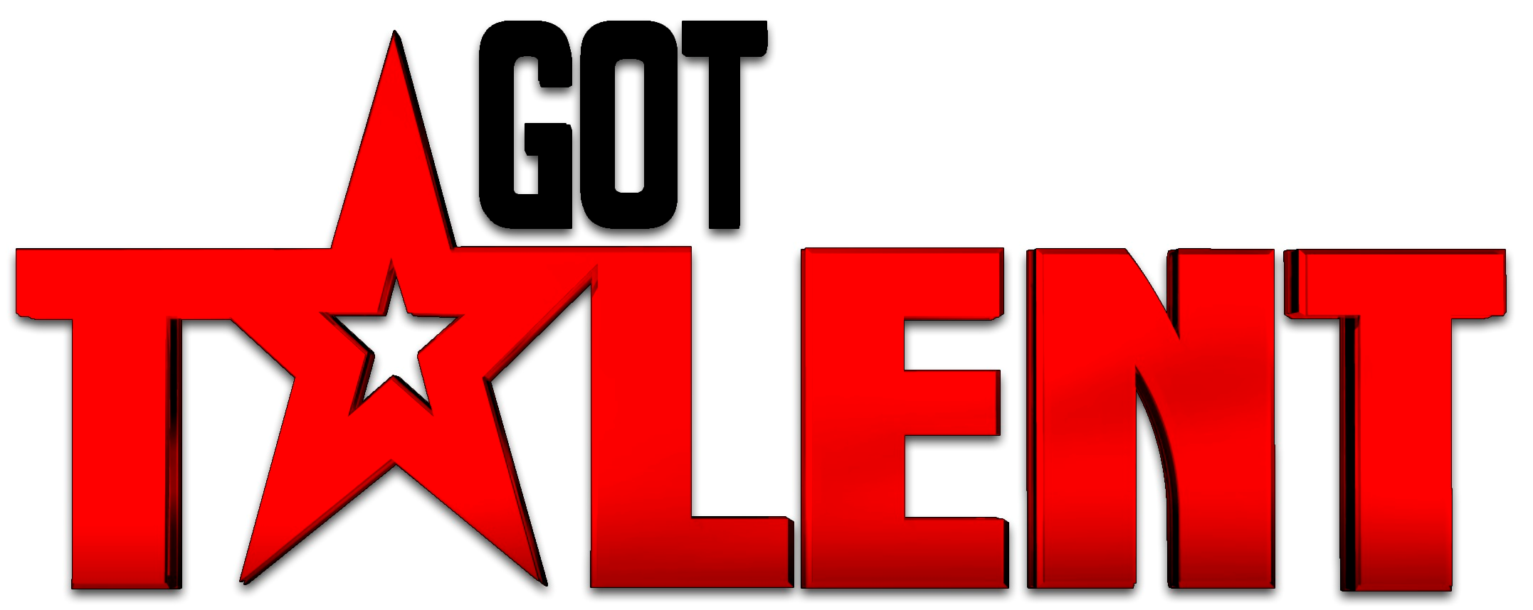 Got Talent is a talent show television format conceived and owned by Simon Cowell's SYCOtv company